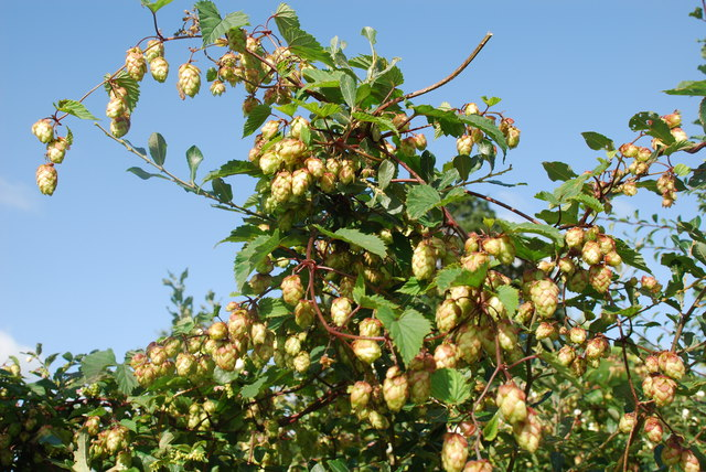 Hopys (Humulus lupulus) Hops The only place I know in the area where wild hops appear every year.